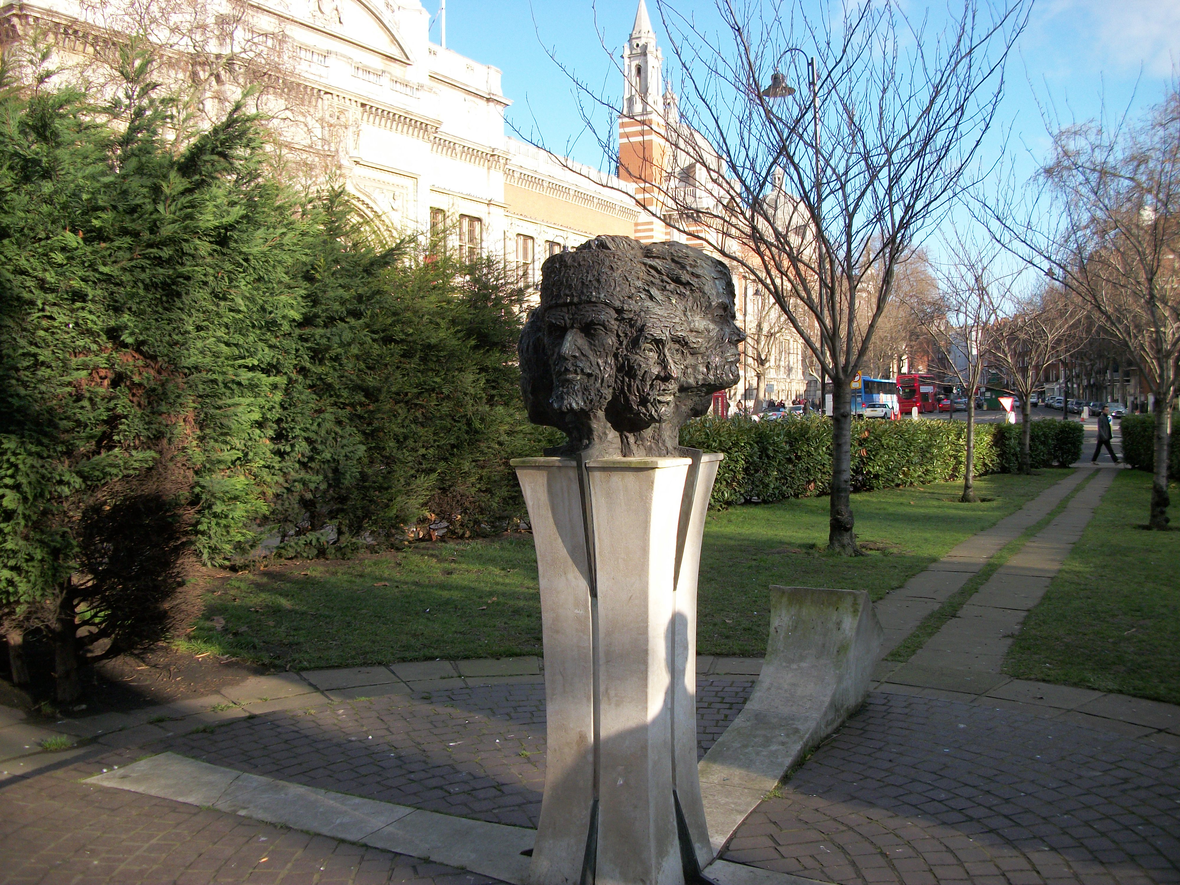 Twelve Responses to Tragedy by Angela Conner in Cromwell Gardens, the sculpture is in memory of the people that were forced back to the former USSR at the end of World War II; Located in Cromwell Gardens, London, the Communist Victims Memorial was placed by members of both houses of parliament and other sympathisers in memory of the people from the Soviet Union and other East European states who were imprisoned and died at the hands of Communist governments after being repatriated at the conclusion of the Second World War. This memorial, sculpted by Angela Conner, was dedicated by the Bishop of Fulham on 2nd August 1986 to replace a previous memorial dedicated by the Bishop of London on 6th March 1982, defaced by vandals.